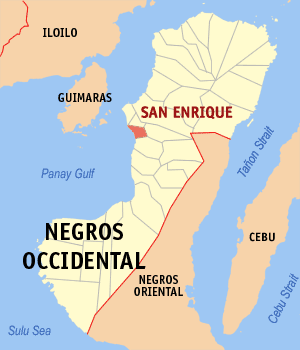 Map of Negros Occidental showing the location of San Enrique